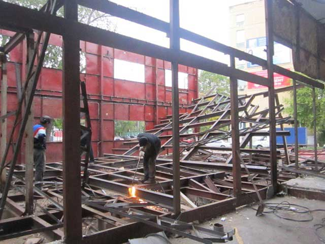 Dismantling of metal constructions is most often carried out with oxygen cutters. In the picture a hangar's metal frame is being cut.